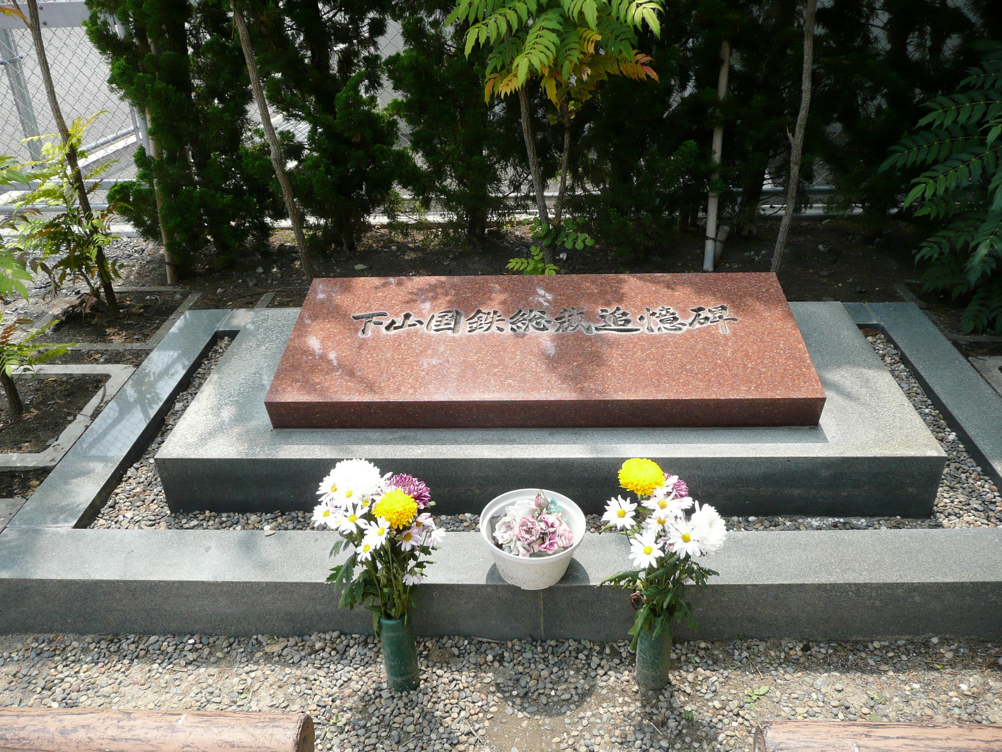 Sadanori Shimoyama JNR president cenotaph.